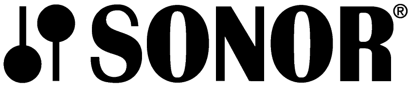 Logo of Sonor, a drum manufacturer from Germany.